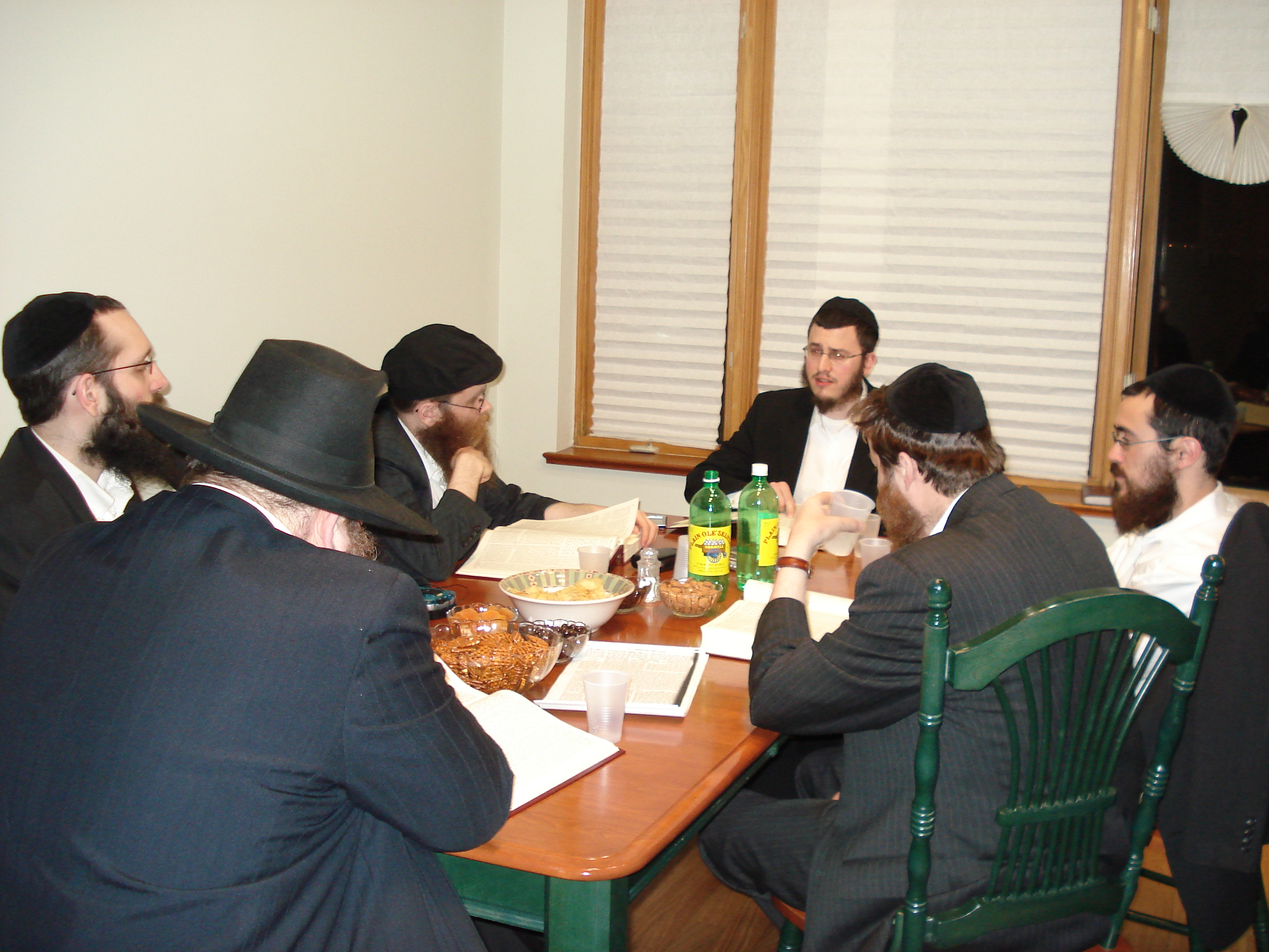 Group of Kohanim studying the Halachot of Tumah and Taharah in anticipation of the coming of Moshiach.